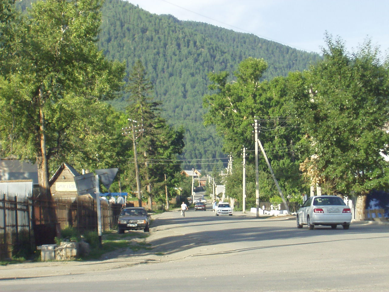 Ongudai settlement in Altai Republic